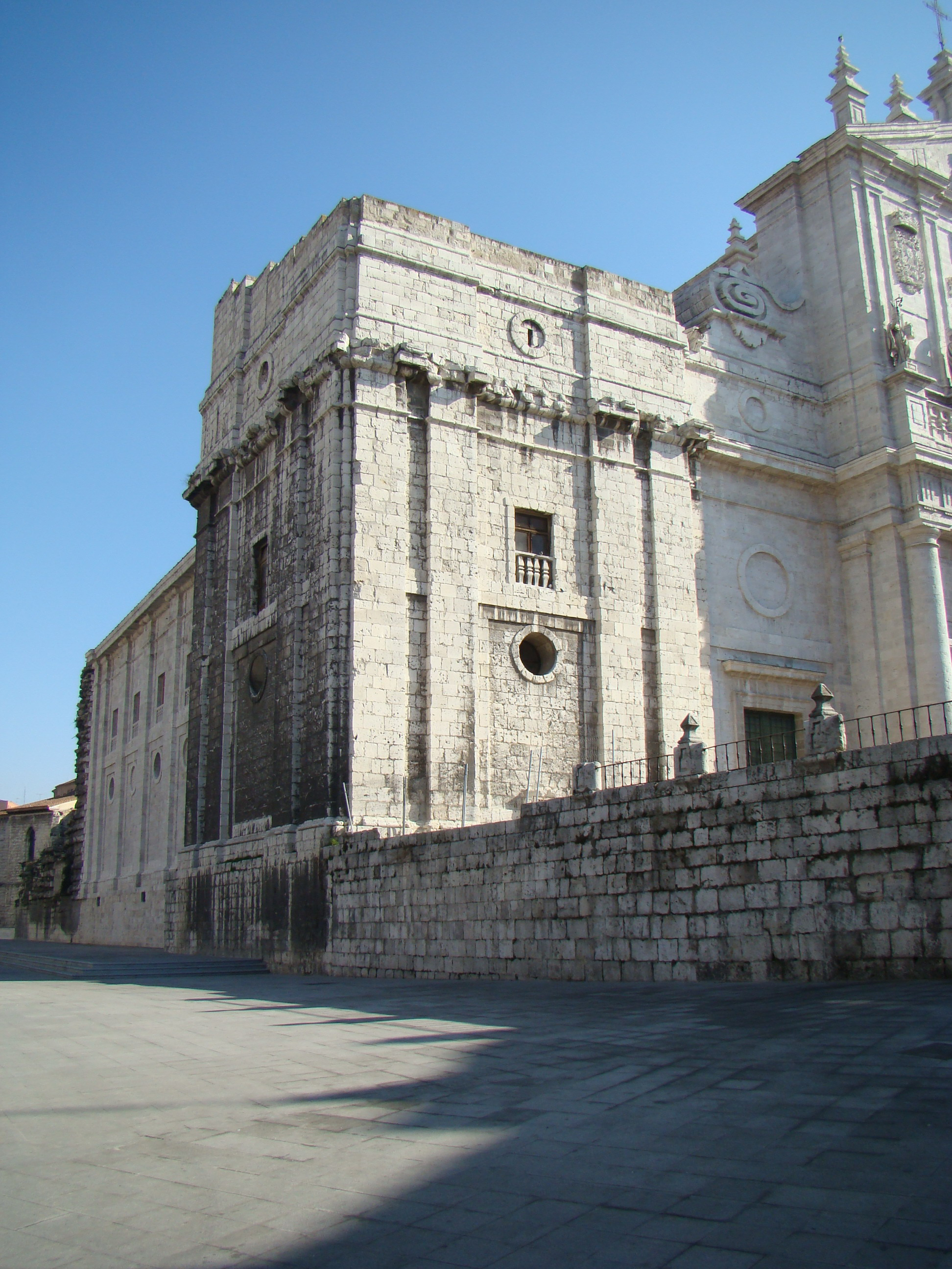 Valladolid. Lopped off tower on the facade of the cathedral. It collapsed in 1841 and left as it is seen in the photo after the restoration works.